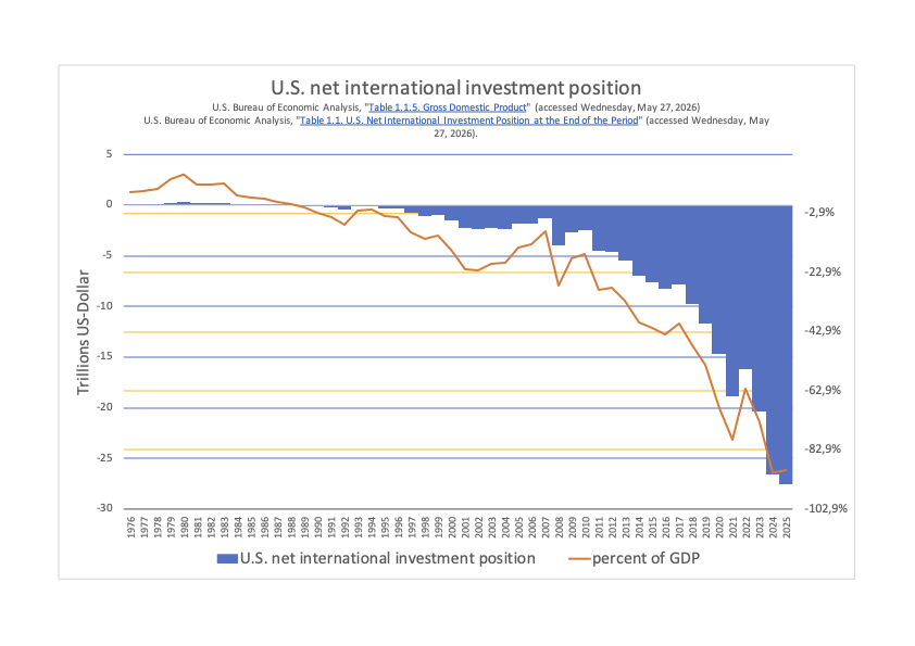 Current-Dollar and "Real" Gross Domestic Product, Annual, GDP in billions of current dollars, 12.22.16; Table 1.2. U.S. Net International Investment Position at the End of the Period, Expanded Detail, [Millions of dollars] NOTE: End of quarter positions begin in the fourth quarter of 2005.